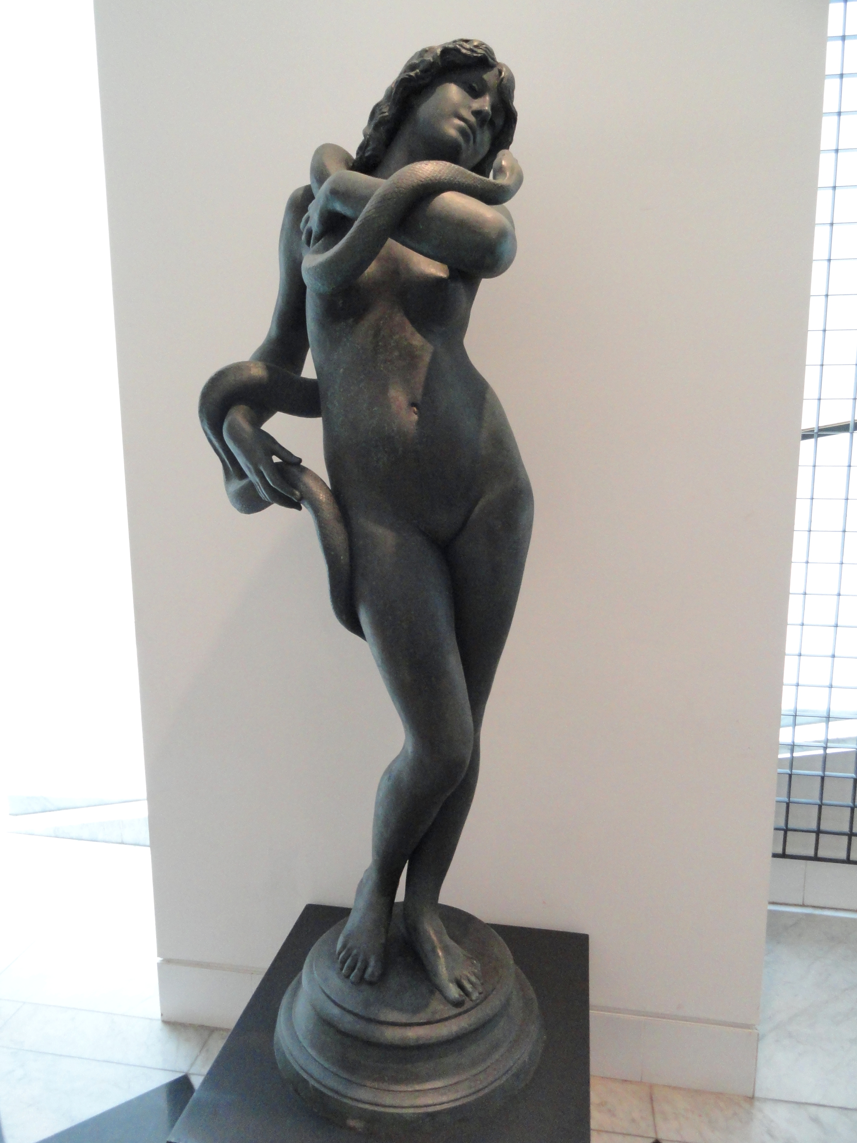 Sculpture exhibited in the Ny Carlsberg Glyptotek, Dantes Plads 7, Copenhagen, Denmark. This artwork is now in the public domain because the artist died more than 70 years ago.